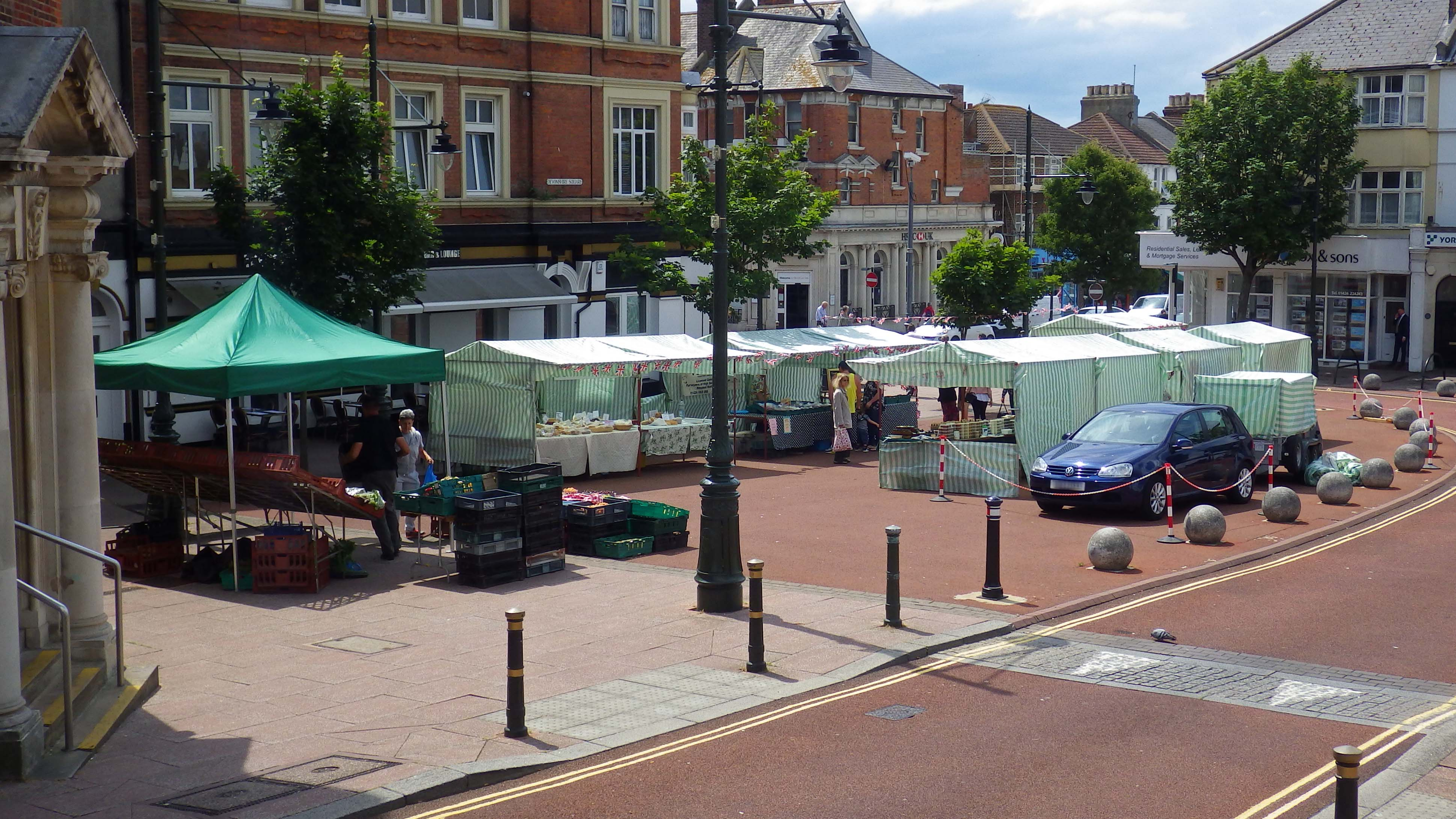 Every Friday 08:30-14:00